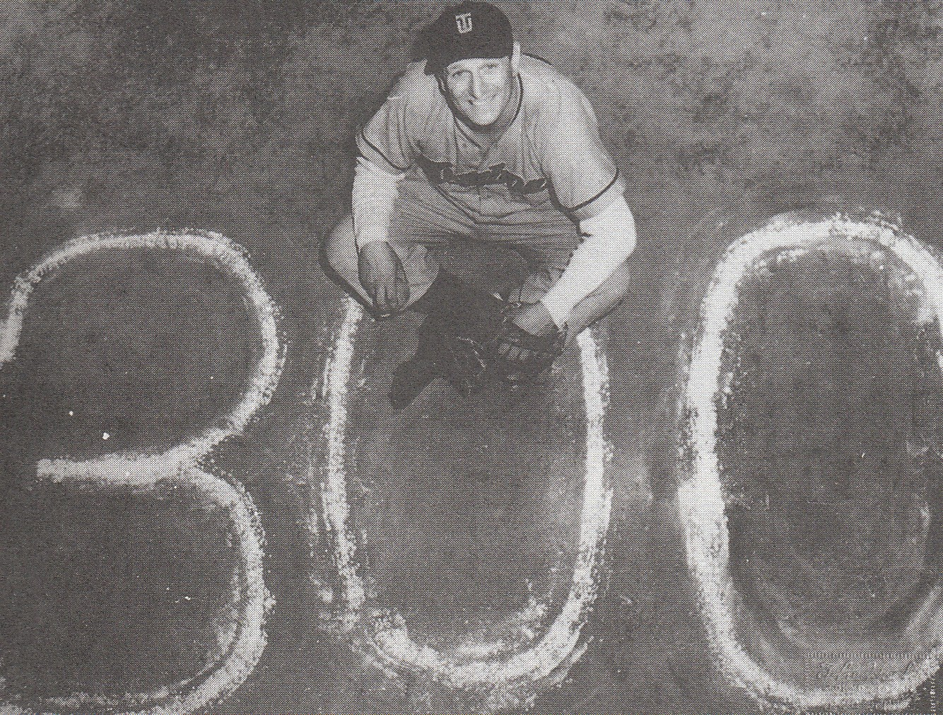 A baseball player from Russia, Victor Starffin（ヴィクトル・スタルヒン）